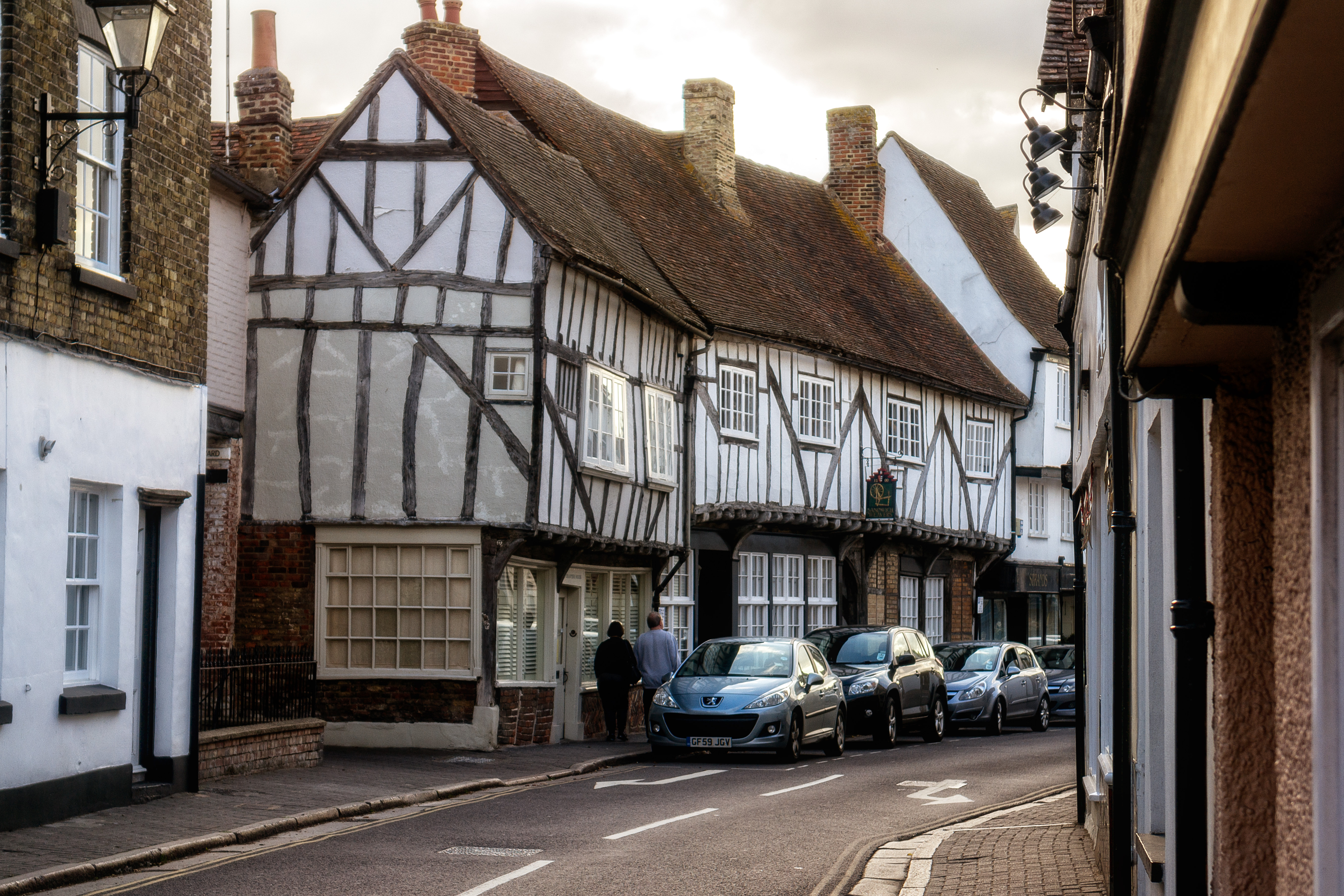 The real thing, Tudor Buildings in Sandwich, Kent.